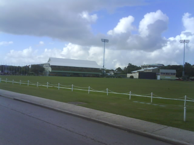 The 3Ws Oval at the Cave Hill Campus of the University of the West Indies, St. Michael.